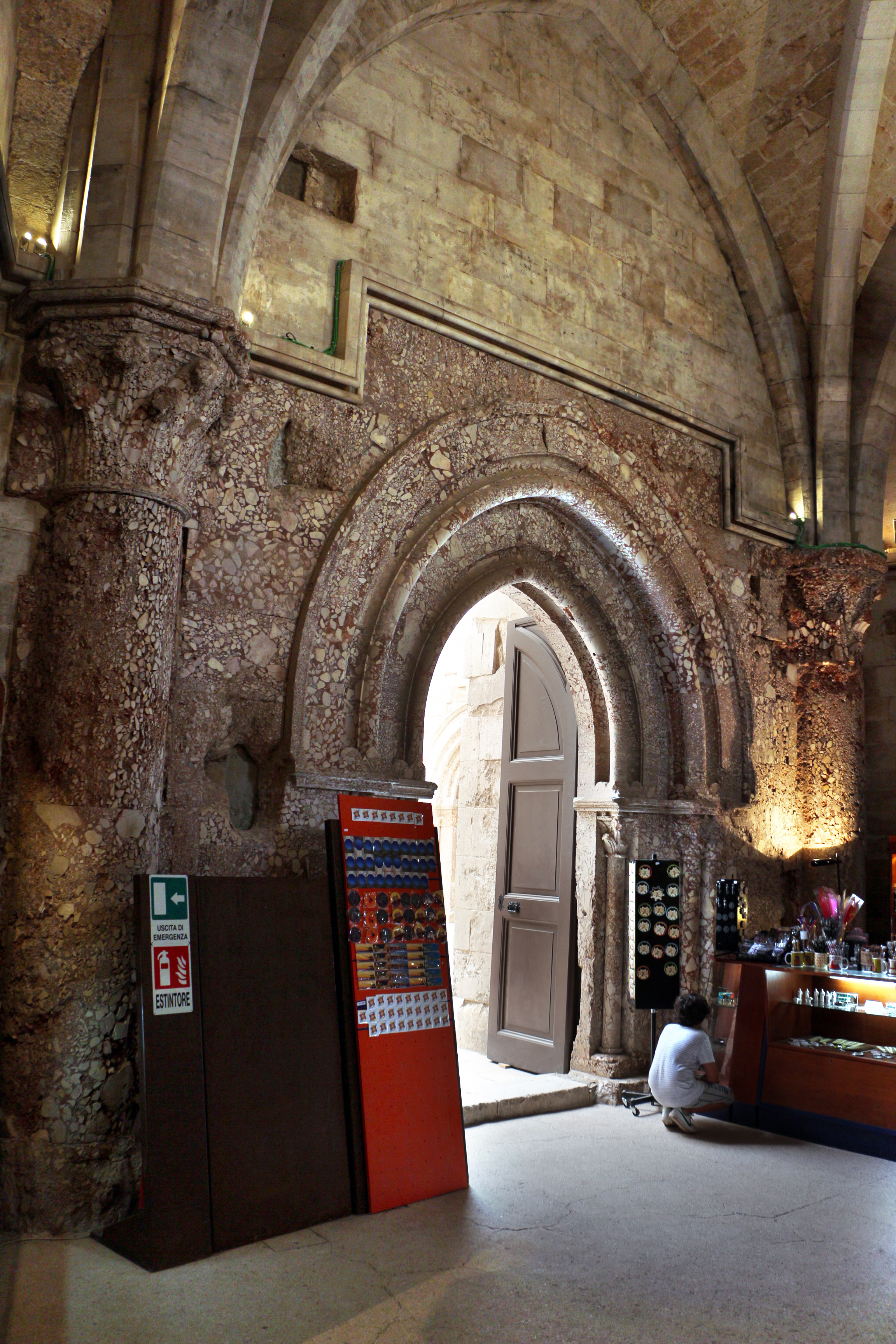 Interior of the Castel del Monte